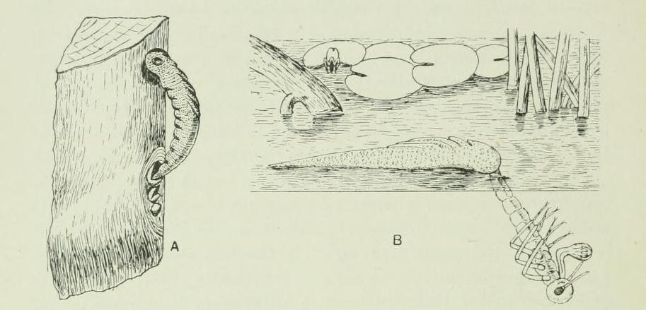 Hatching of Lestes viridis Vand by Tillyard based on Abbe Pierre (1904) (Text: L'éclosion des œufs de Lestes viridis, page: 477-484)